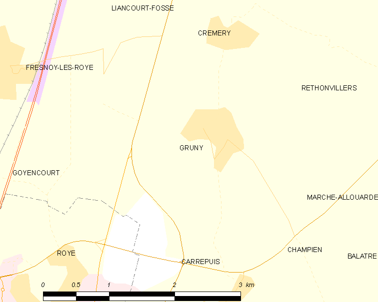 Map of French municipality Gruny